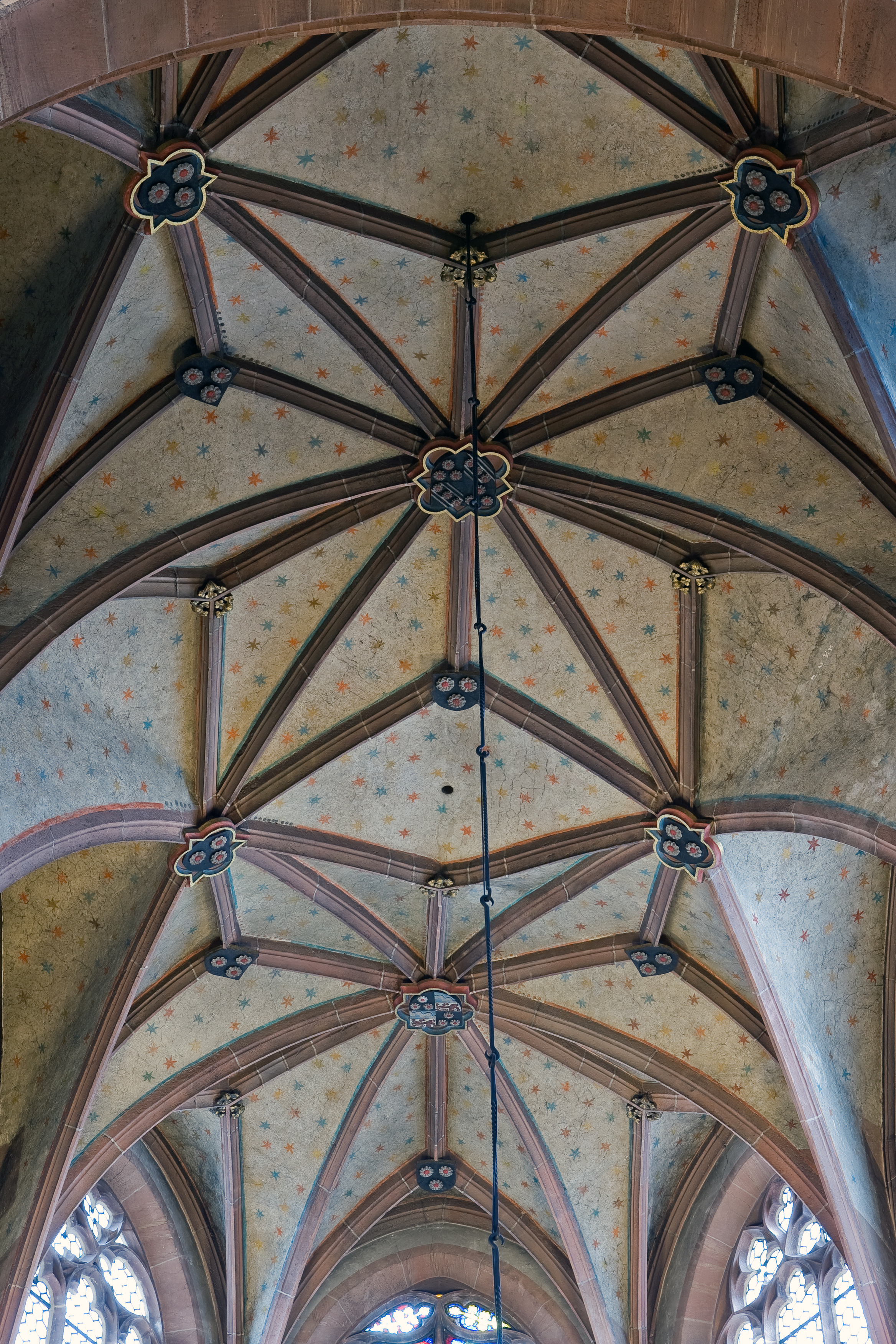 Frankfurt on the Main: St Leonard's Church, gothic stellar vault of the first half of the 15th century of the high choir attributed to Madern Gerthener